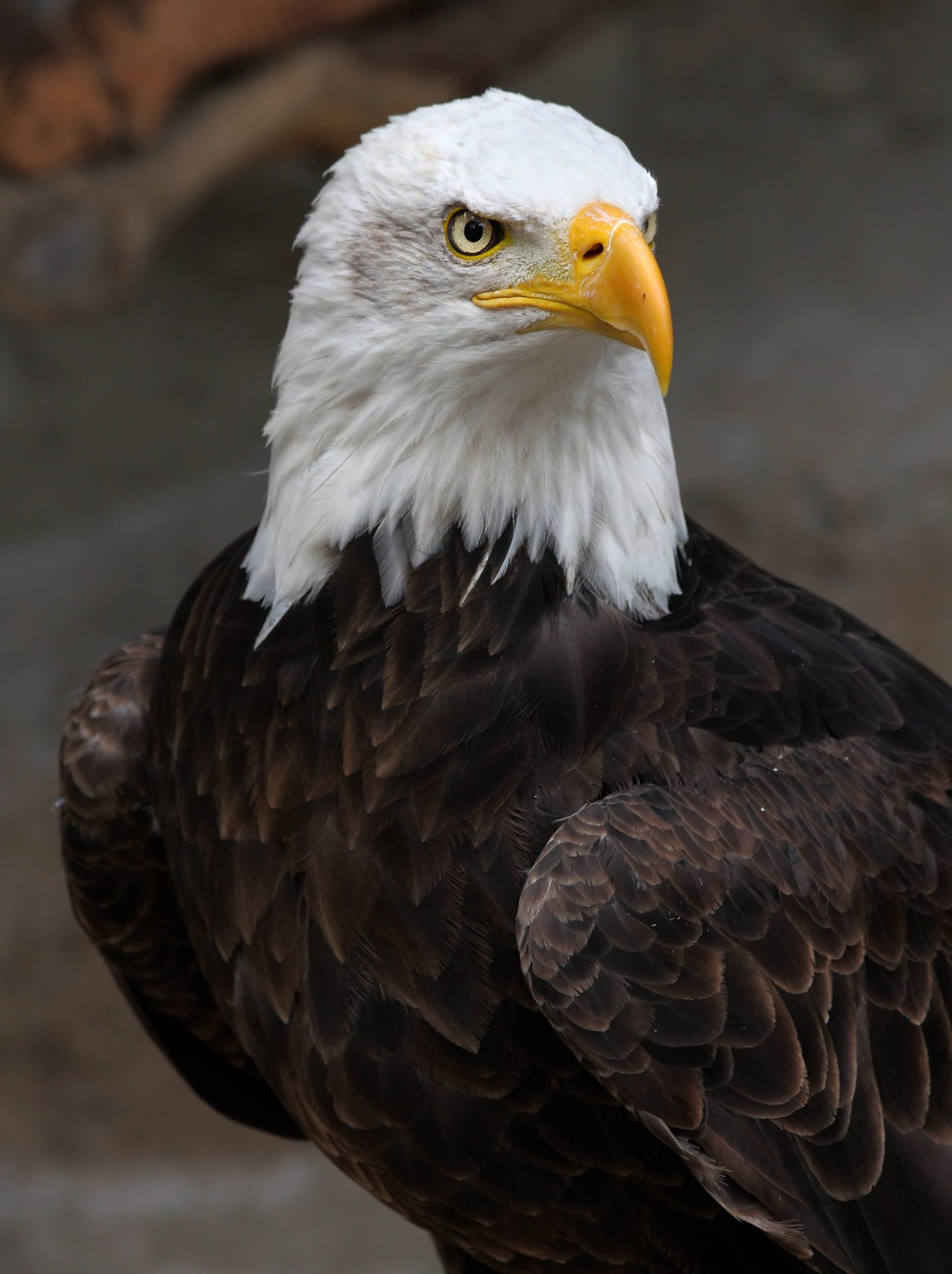 Bald eagle